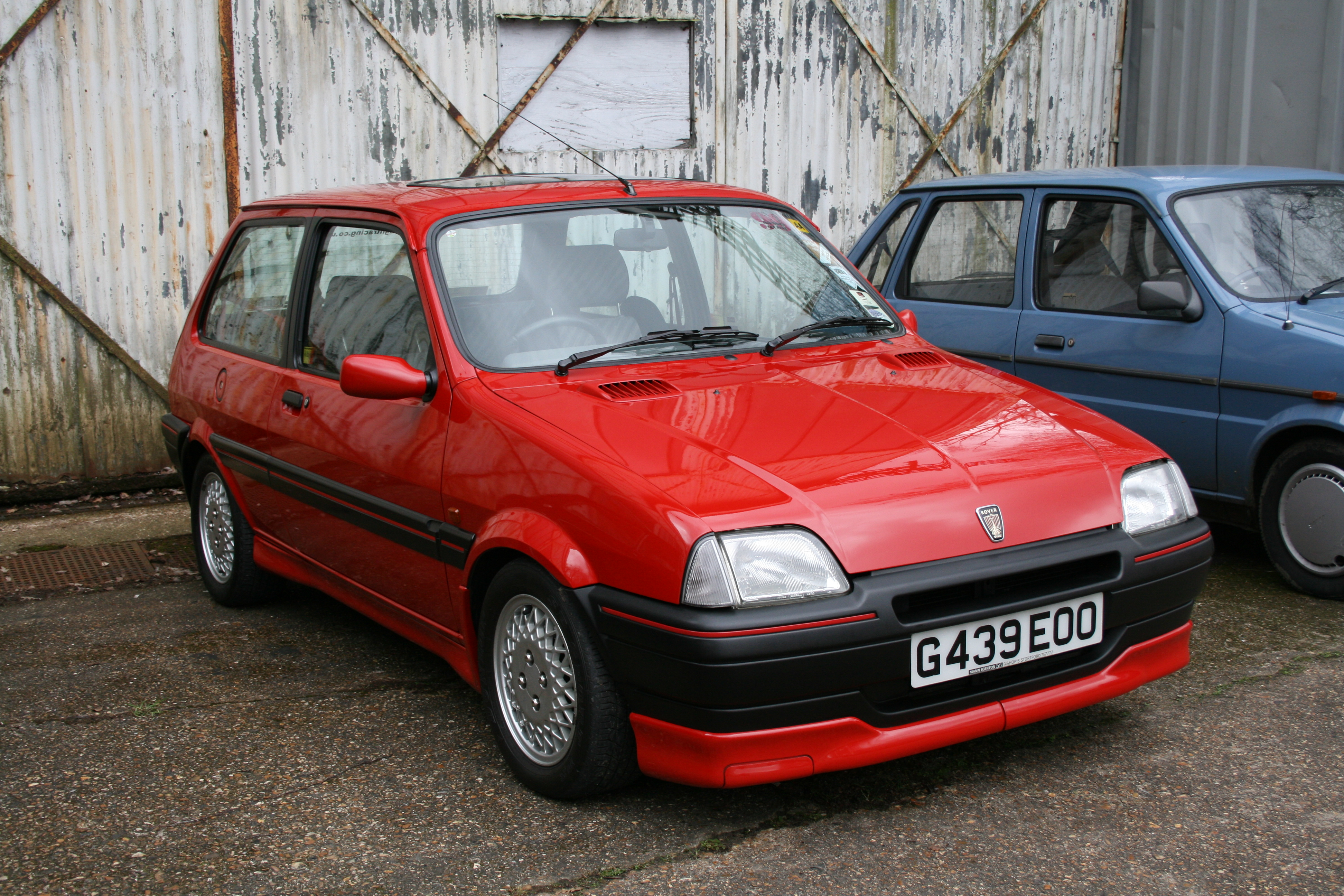 1990 red Rover Metro 1.4 GTi (sold in Europe as Rover 114 GTi 16v)